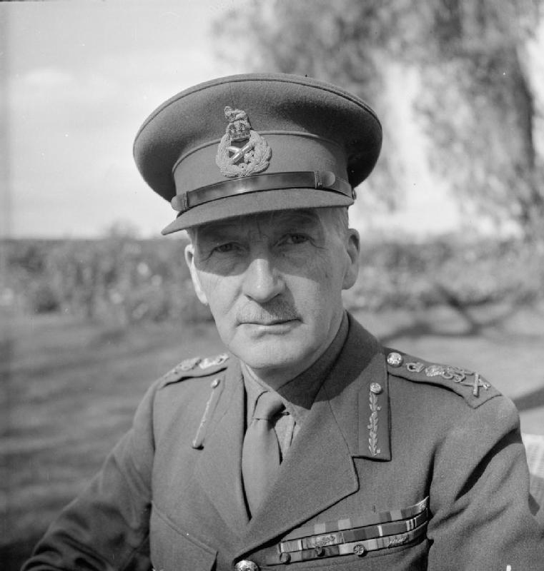 The British Army in North Africa, 1941 Sir John Dill at the headquarters of General Sir Archibald Wavell, Commander-in-Chief of Middle East Forces, Egypt, 18 February 1941.